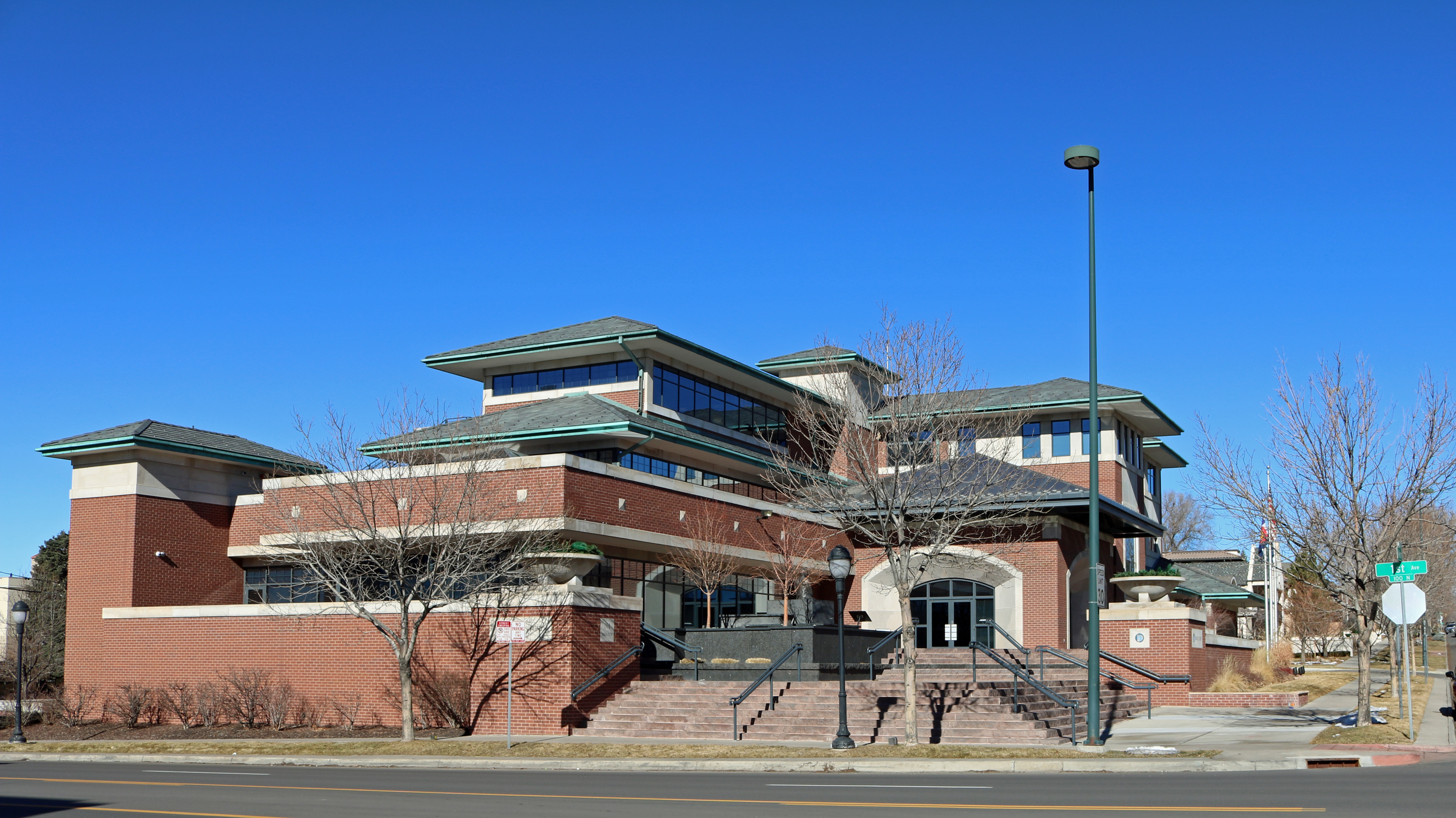 The headquarters of the Daniels Fund, located at 101 Monroe Street in Denver, Colorado.